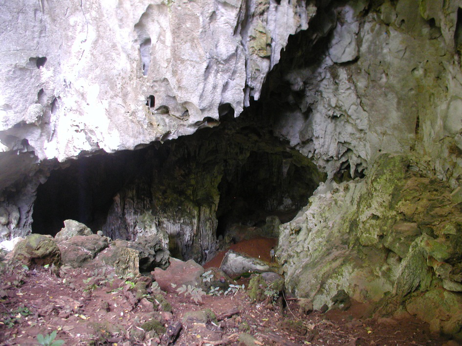 View of south entrance to TPL with excavation area in the lower part of the background. Photo taken from the south, looking towards the north.